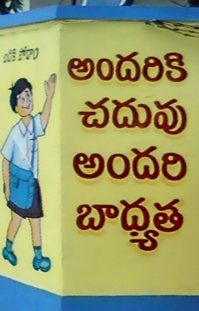 A Slogan with meaning (Education is everyones responsibility) in Telugu Language at C B M Simpson Memorial Aided School in Kakinada city